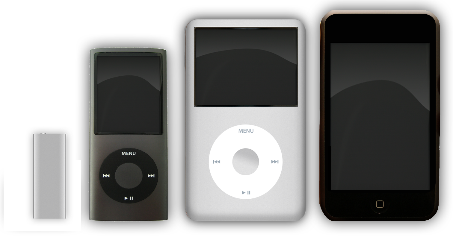 These are the current models of the iPods from Apple, Inc. The first one is a silver iPod shuffle, the second one is a black iPod nano, the third one is a silver iPod classic and the last one is a black iPod touch.